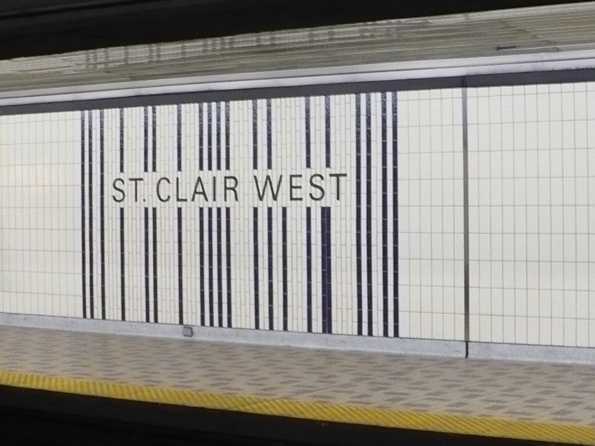 St. Clair West subway station in Toronto. Showing the distinctive "barcode" tileing around the station name on the platforms